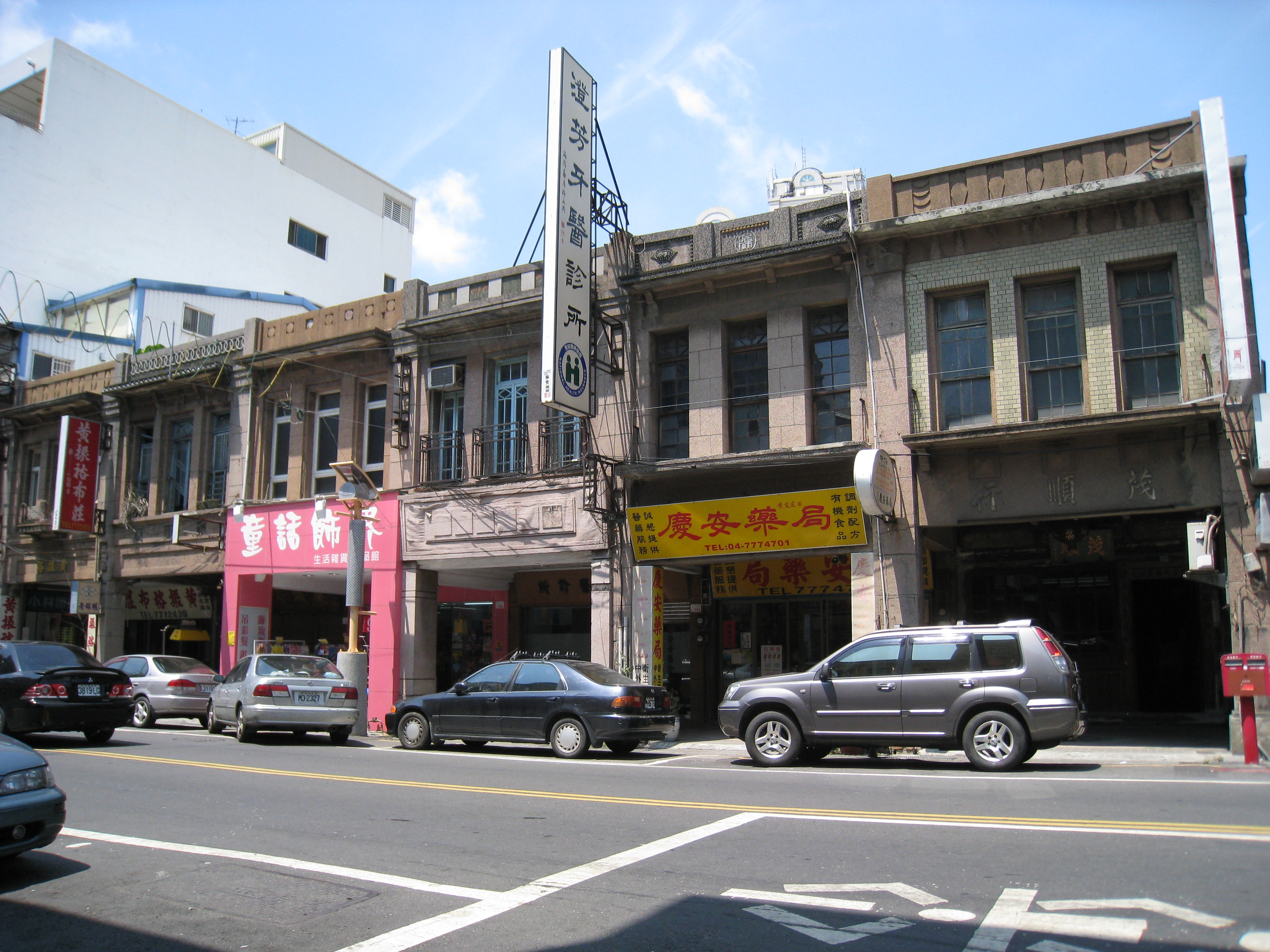 LokkangBân-lâm-gú: Lo̍k-káng. 鹿港